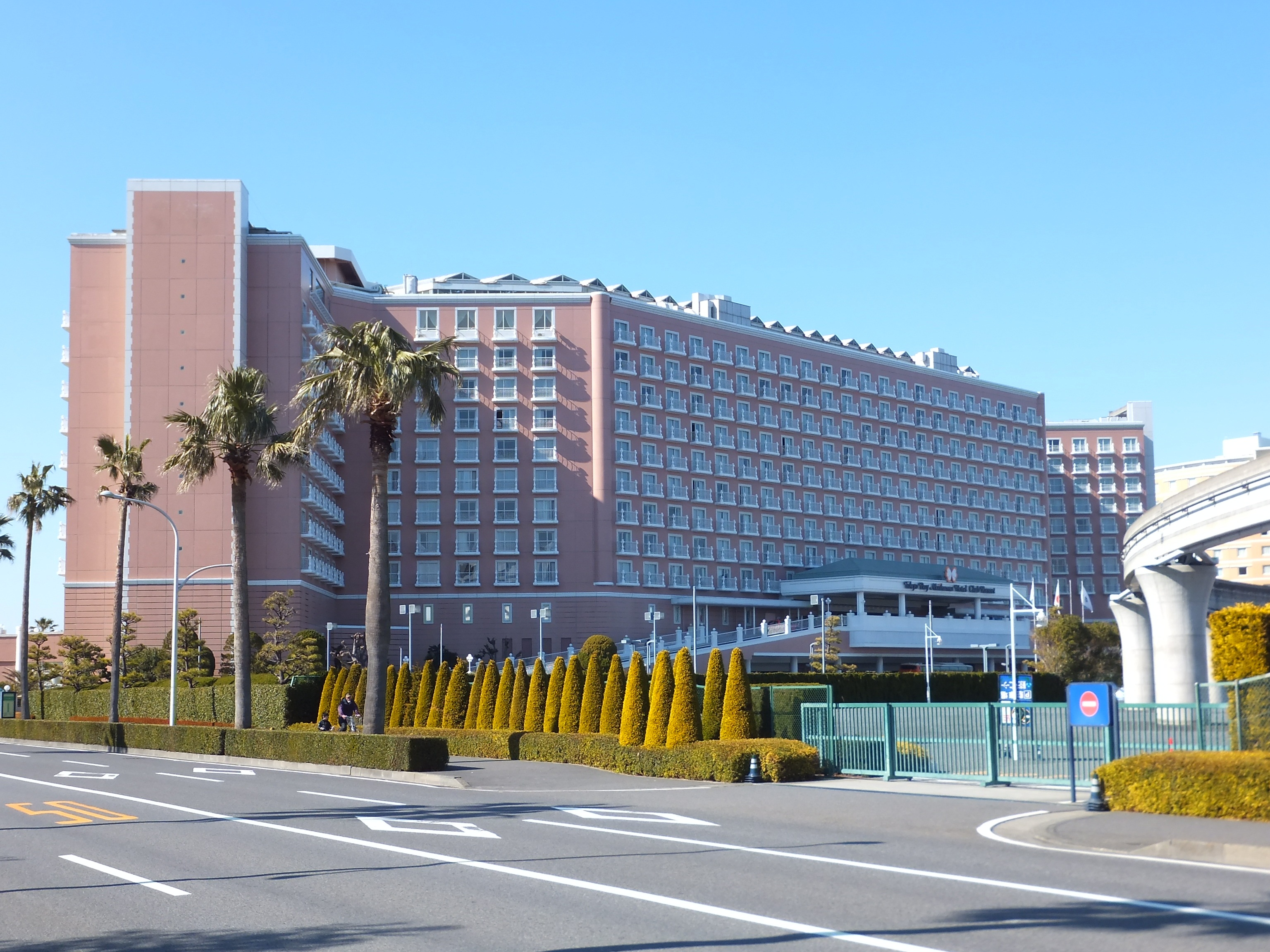 Club resort Annex of Tokyo Bay Maihama Hotel, in Urayasu City, Chiba Prefecture, Japan